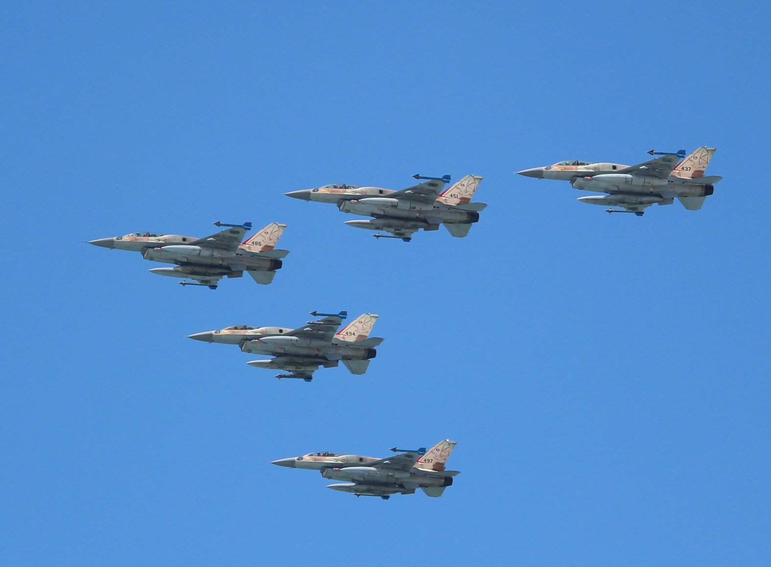 Five F-16I Sufa from "The Bat" Squadron in Air Force Fly By, Beaches of Tel Aviv-Yaffo, Israel 67th Independence day